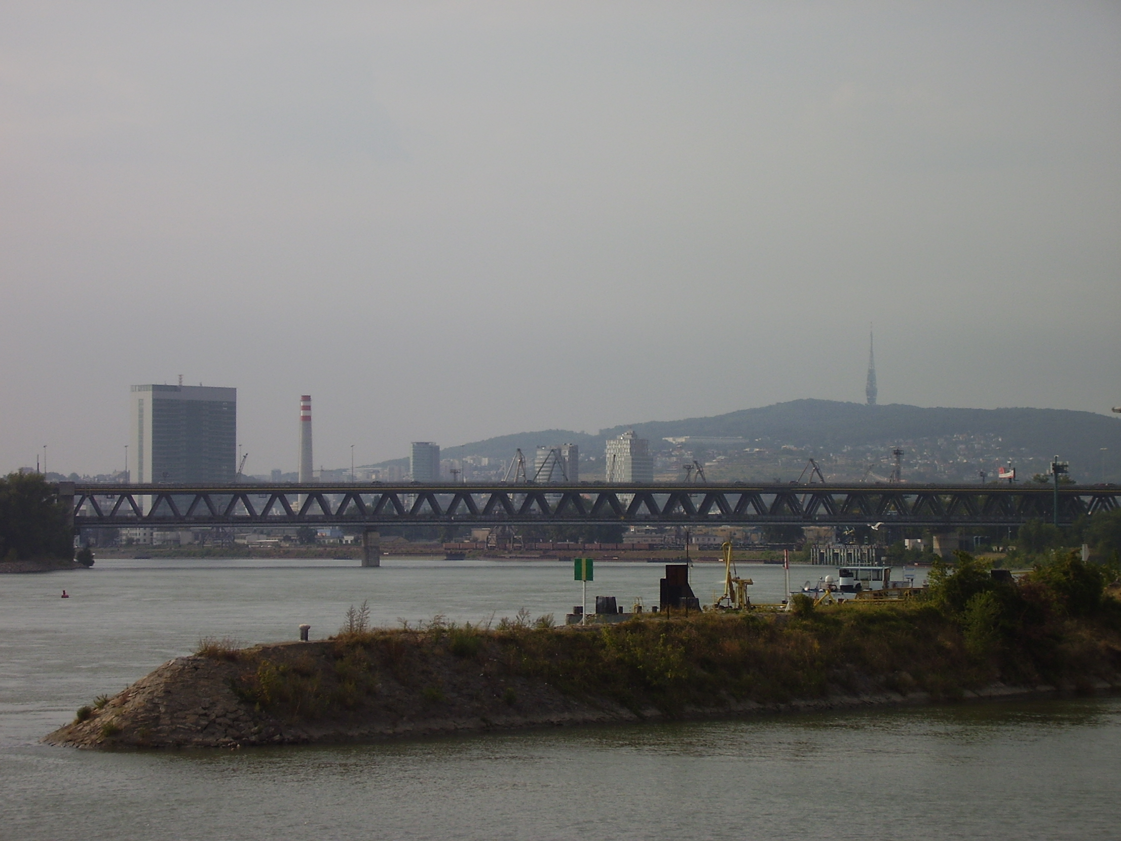 Bratislava and Danube